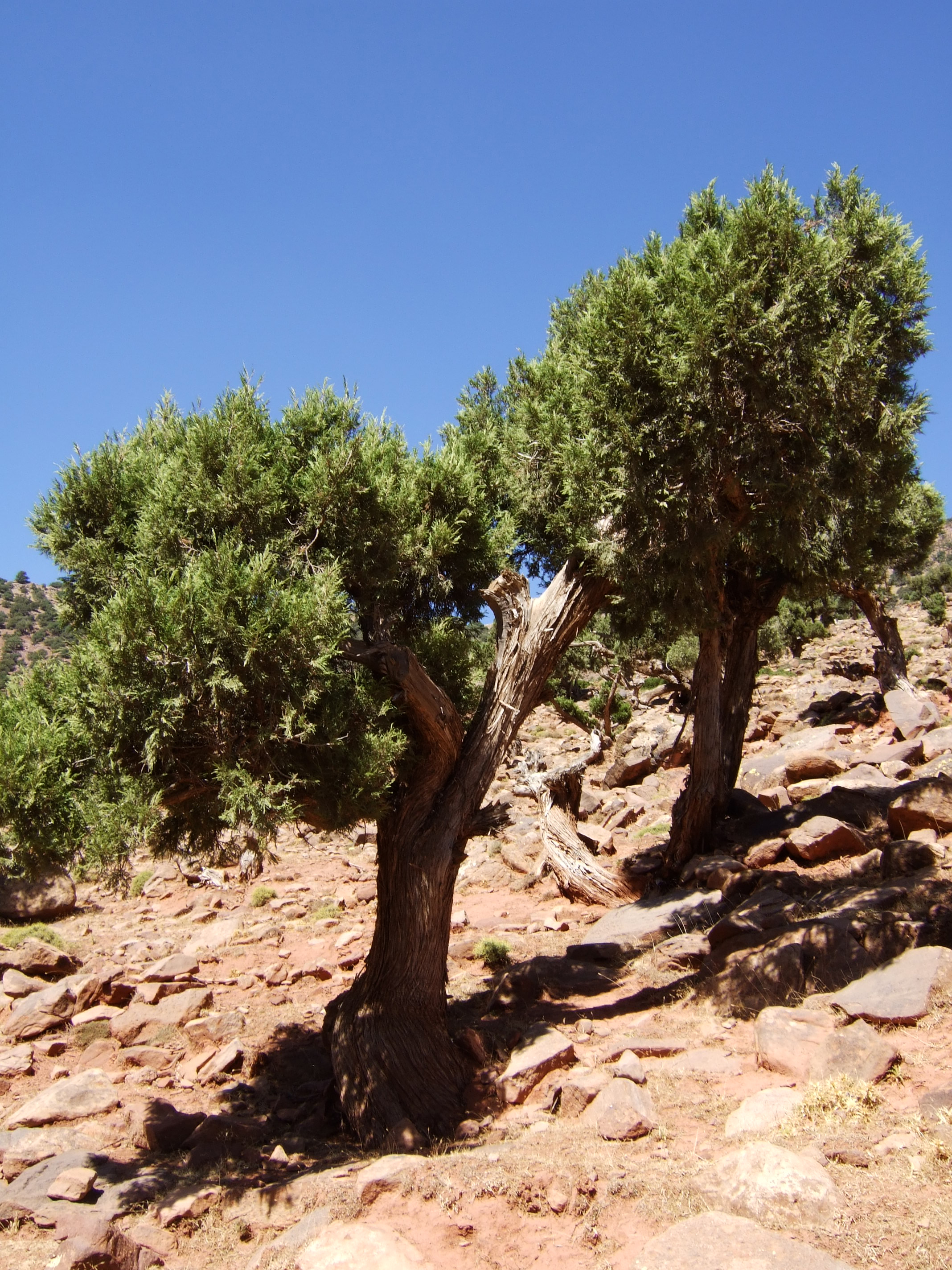 Juniperus thurifera var. africana, High Atlas, near Imlil, Morocco.